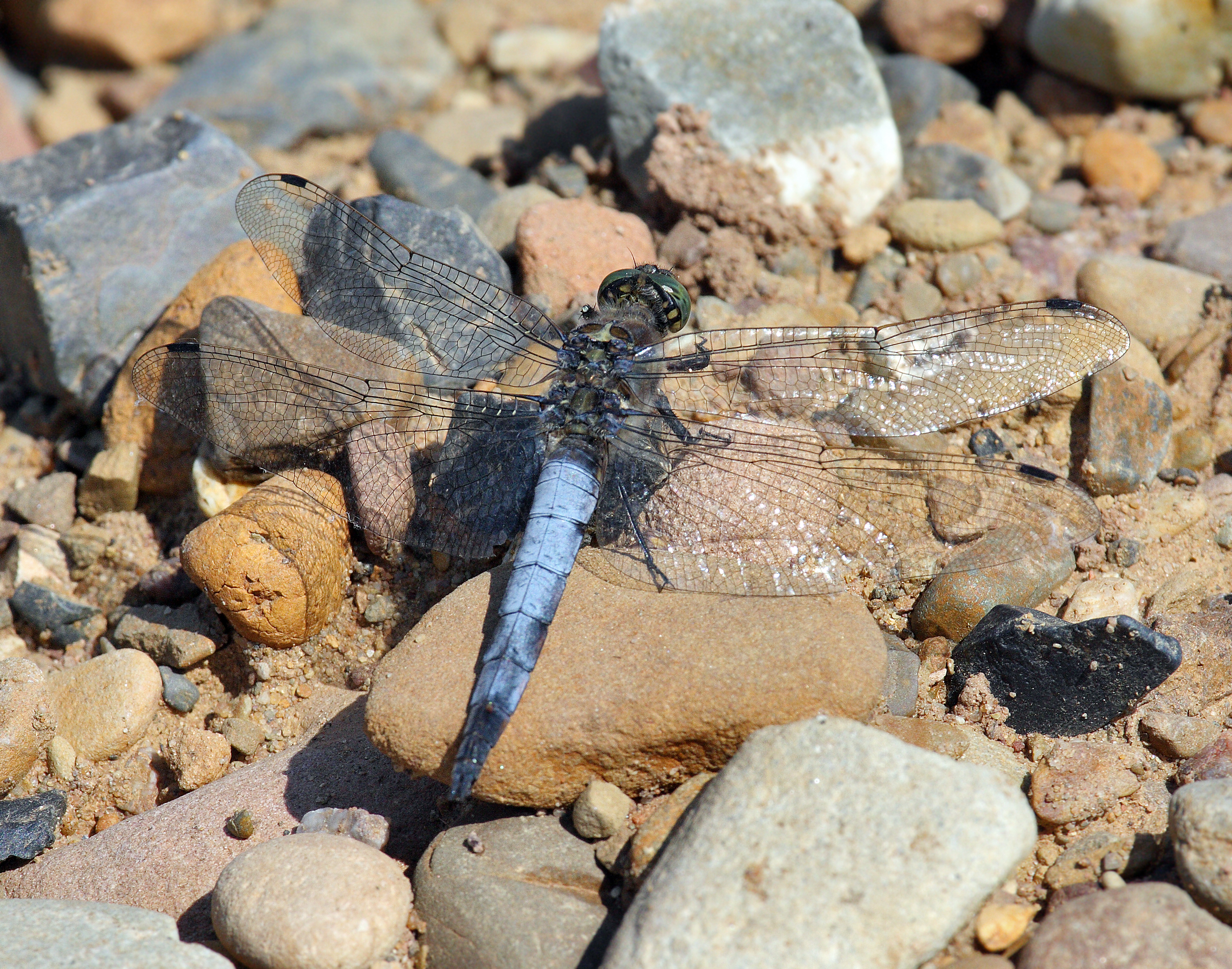 male Black-tailed Skimmer